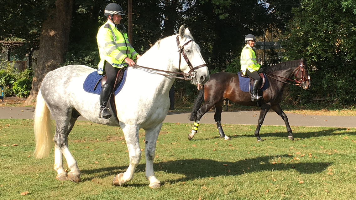 Two Metropolitan Police Horses in Ladywell Fields, Sept 2016